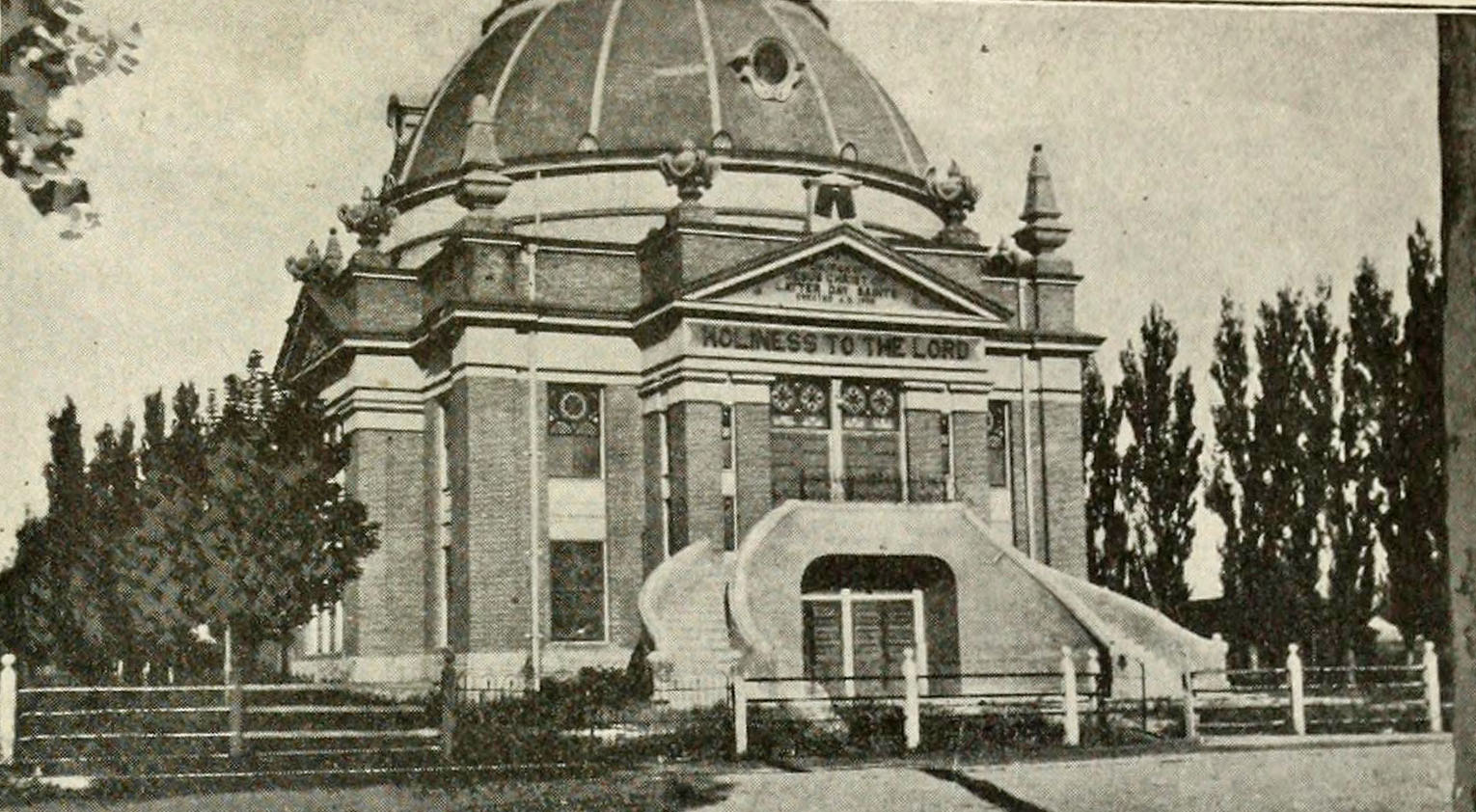 This is a photograph of the Riverton Ward Meeting House of The Church of Jesus Christ of Latter-day Saints, published in 1914 in the Improvement Era magazine. This building was constructed from 1899-1909, Richard Kletting, architect. It is no longer standing.